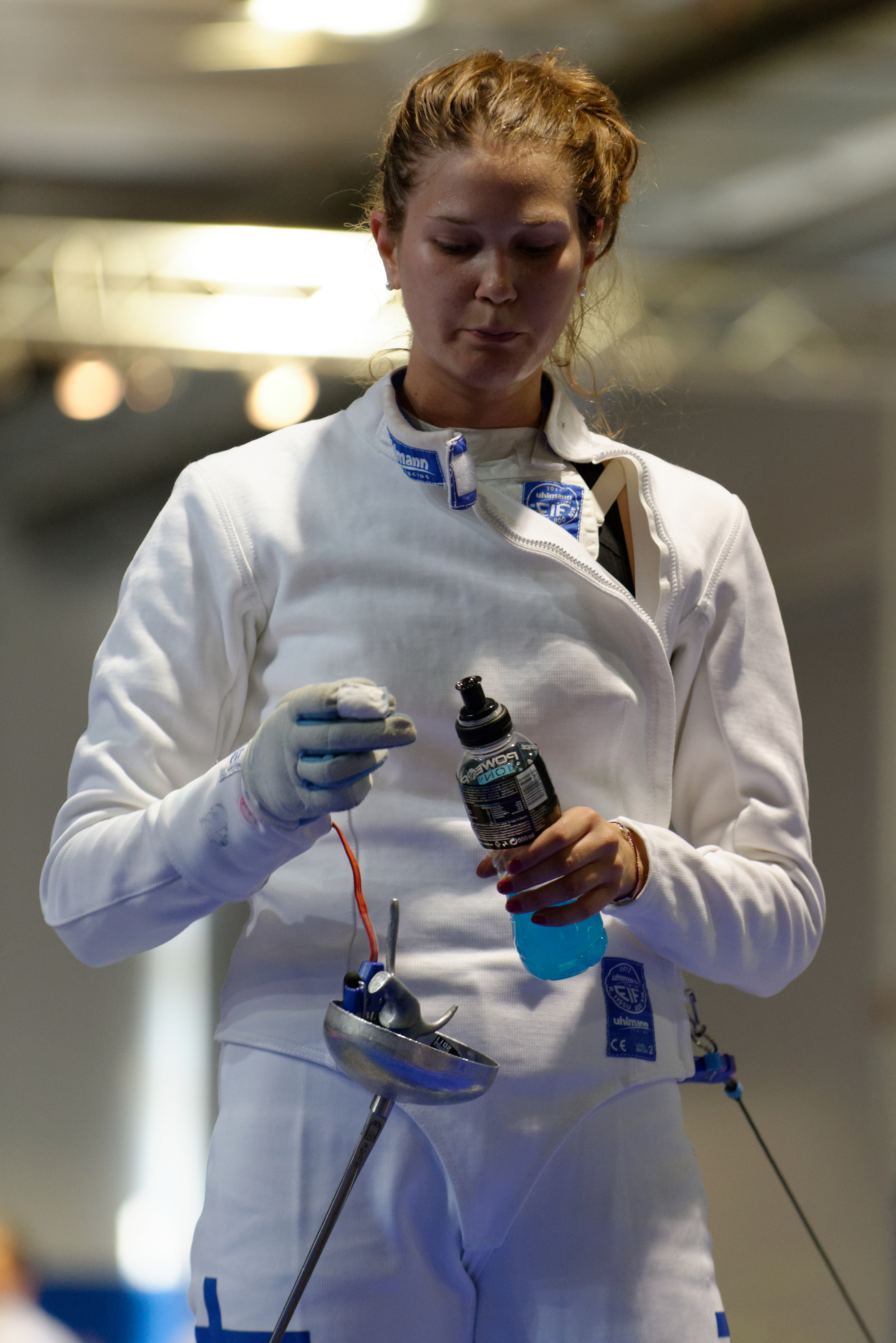 Finland's Catharina Kock during her bout against Courtney Hurley of the United States in the women's épée table of 64 at the 2013 World Fencing Championships 2013 at Syma Hall in Budapest, 8 August 2013.